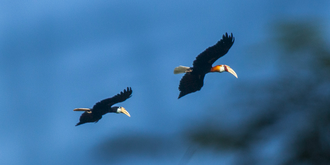 Blyth's Hornbill - Halmahera_MG_3300